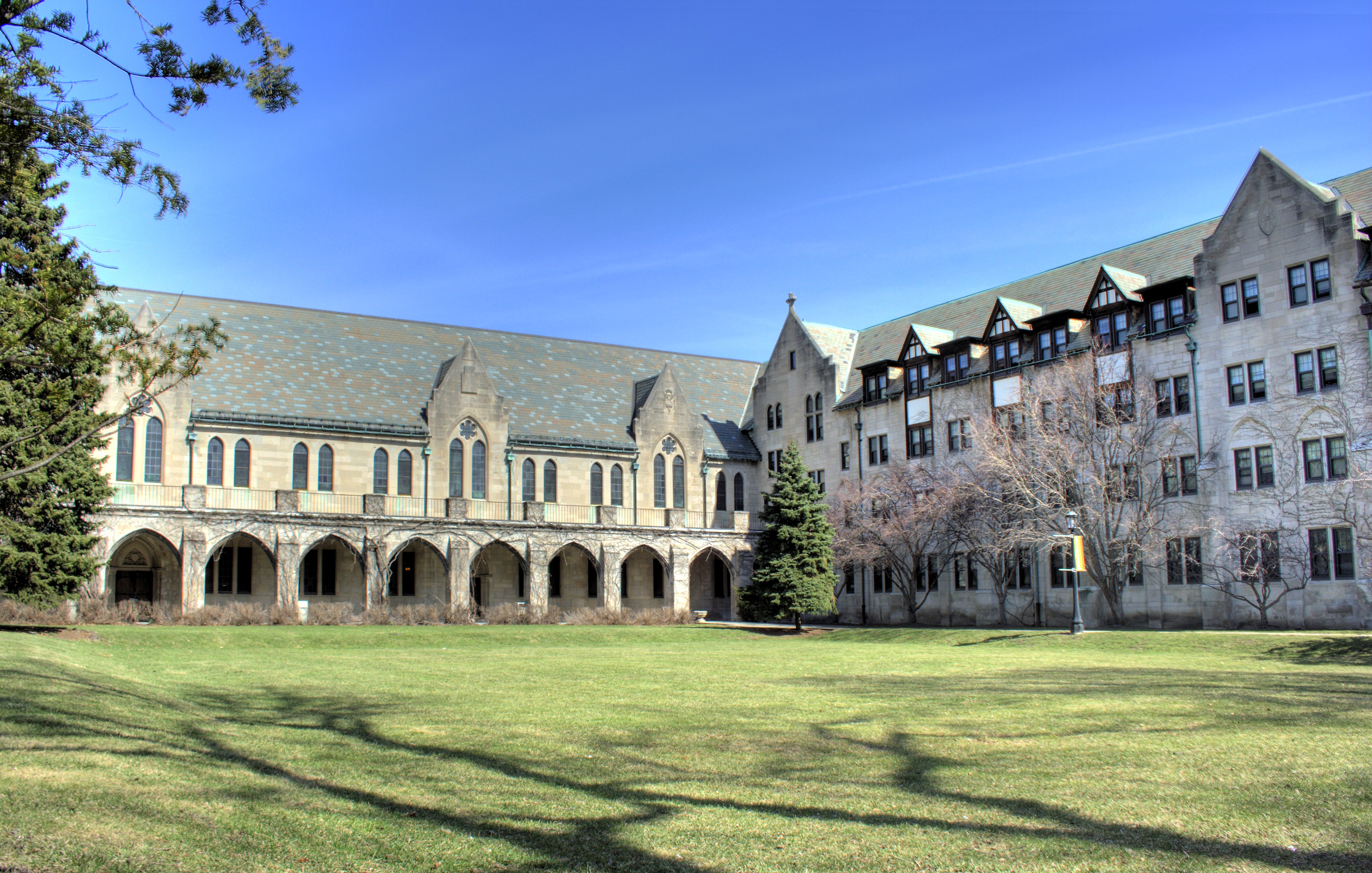 A view of the Dominican University (Rosary College) quad.